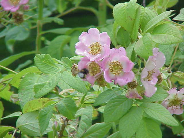 Species: Rosa macrophylla Family: Rosaceae Image No. 1